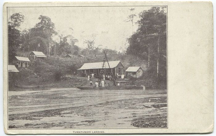 Postcard of Tumatumari Landing in Guyana